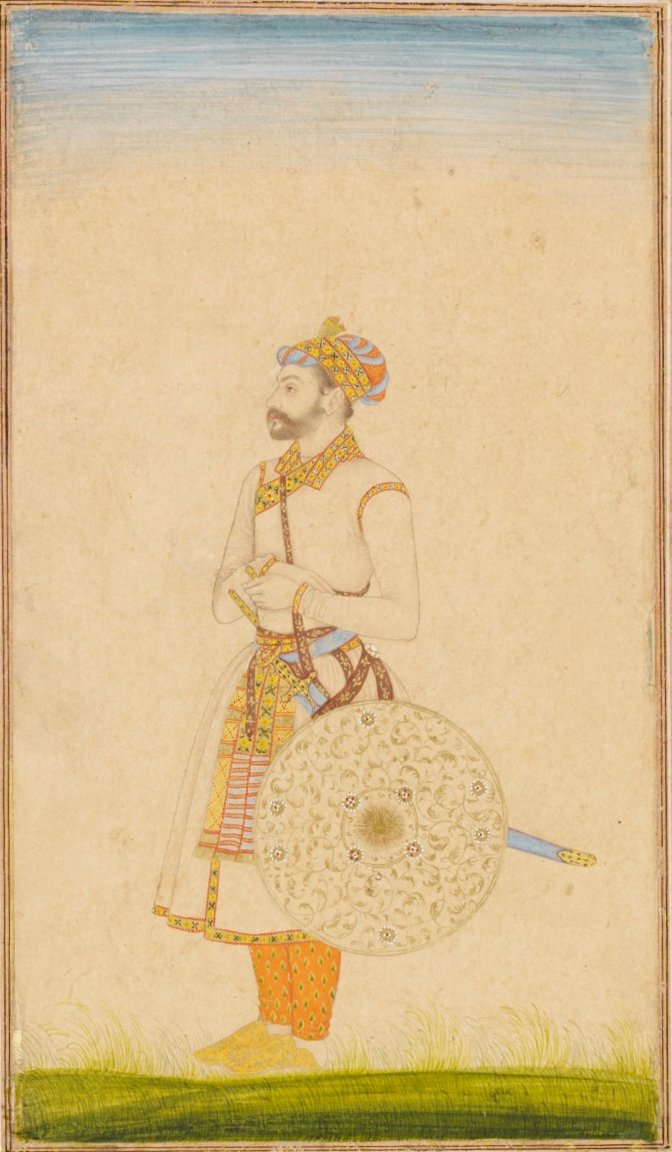 Source: Victoria & Albert Museum. This miniature painting is part of the Small Clive Album of Indian miniatures which is thought to have been given by Shuja ud-Daula, the Nawab of Avadh, to Lord Clive during his last visit to India in 1765-67.